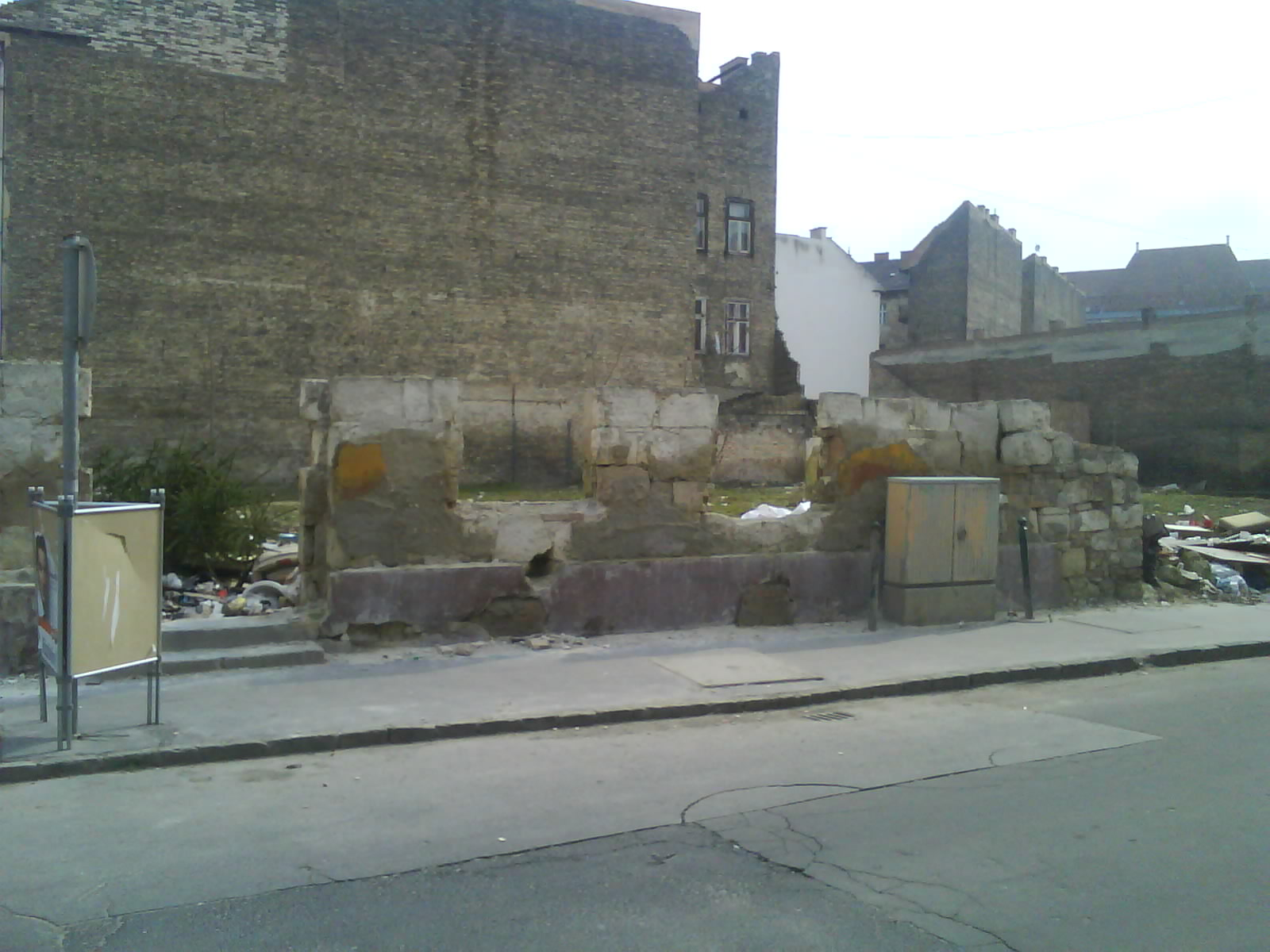 Empty Plot used as illegal dump; Budapest, Hungary